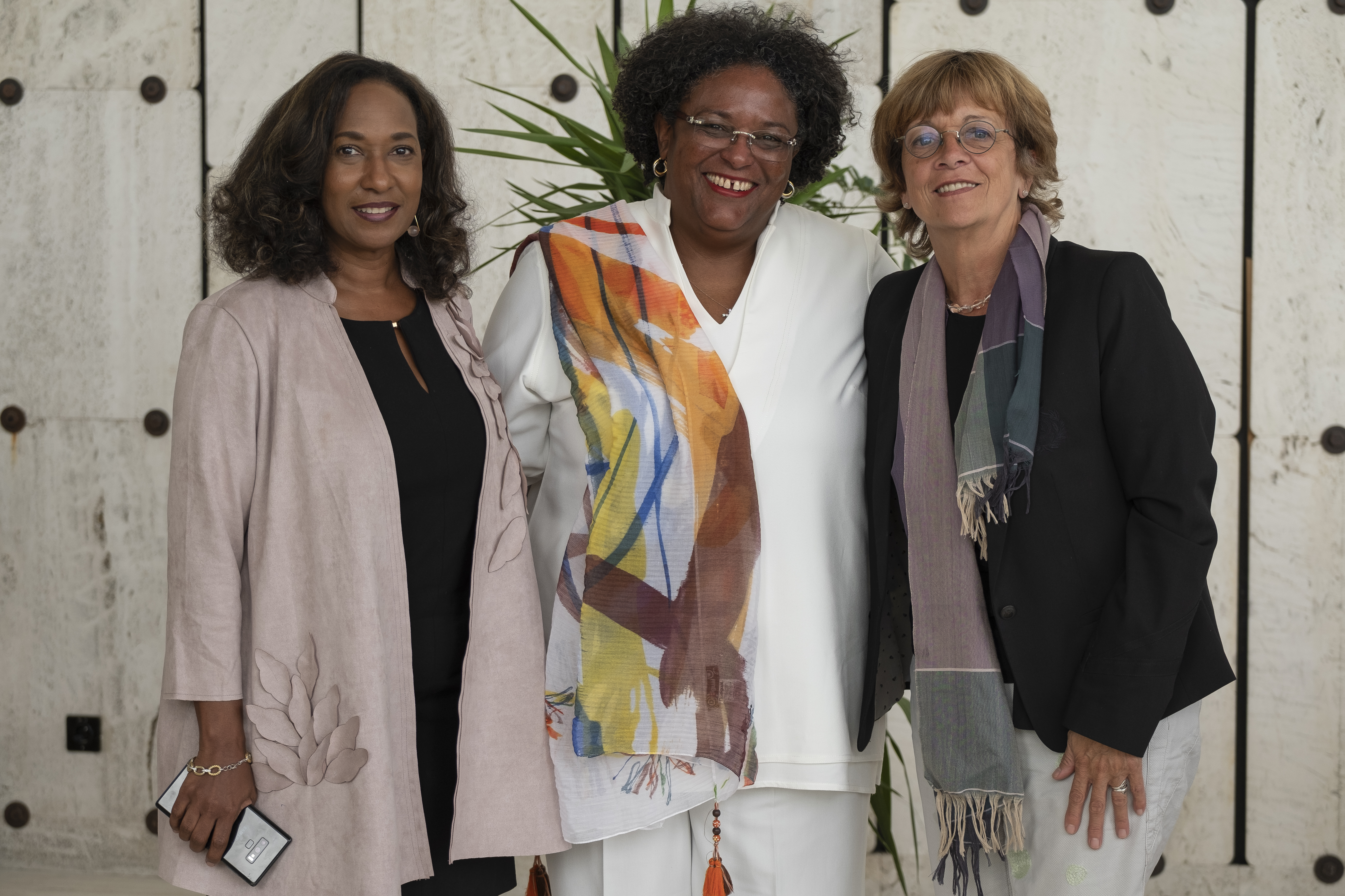 Pamela Coke-Hamilton, Mia Mottley and Isabelle Durant.jpg At the the 16th Raúl Prebisch Lecture by The Honorable Mia Amor Mottley, Prime Minister of Barbados, held in Geneva, Switzerland, on 10 September. Photo: Timothy Sullivan (UNCTAD) More